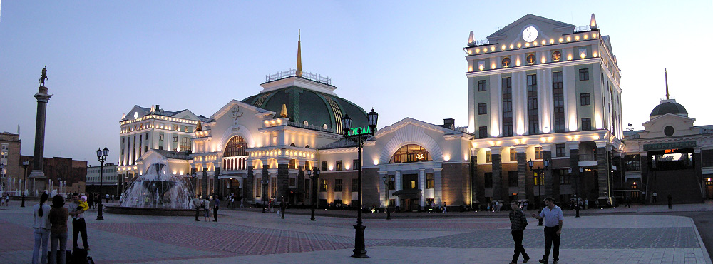 Krasnoyarsk railstation